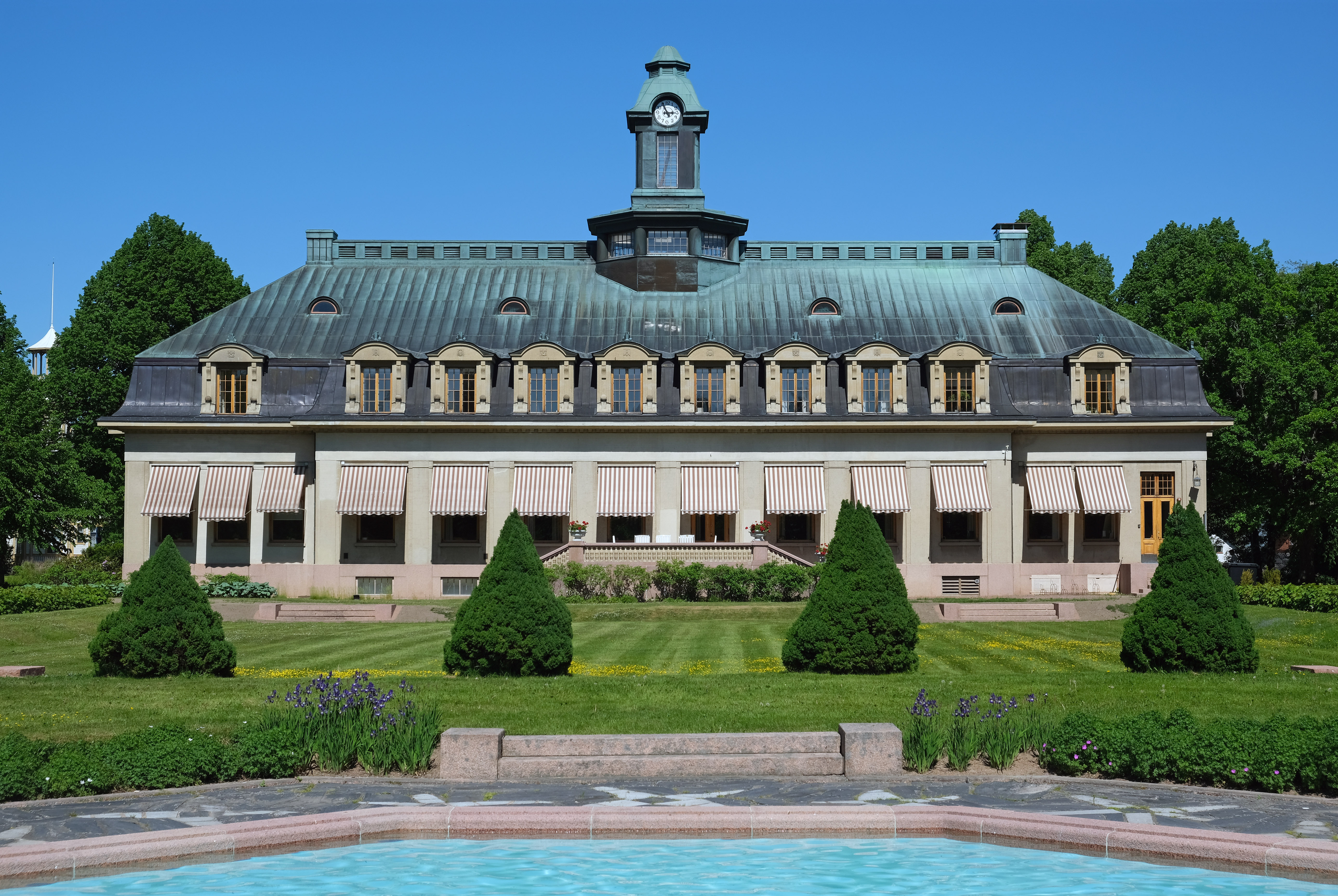 Ahlström headquarters, Noormarkku Ironworks in Pori, Finland.